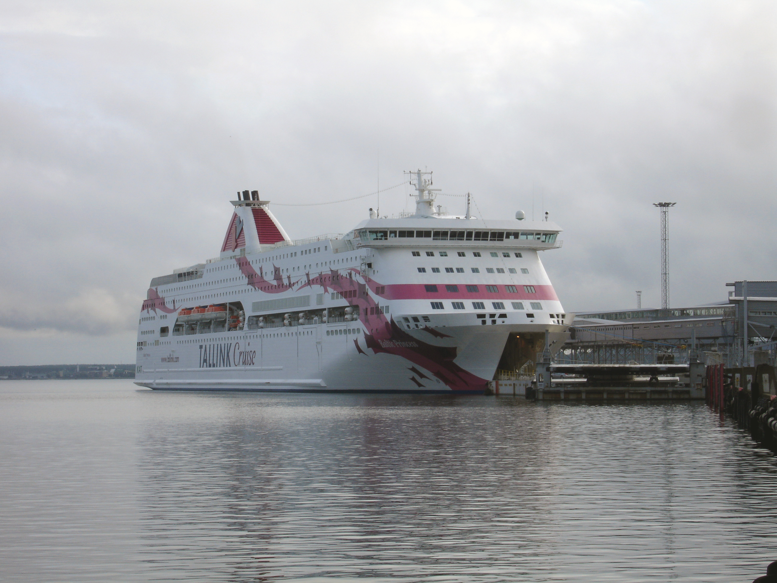 Baltic Princess in Tallinn harbour, August 2008.